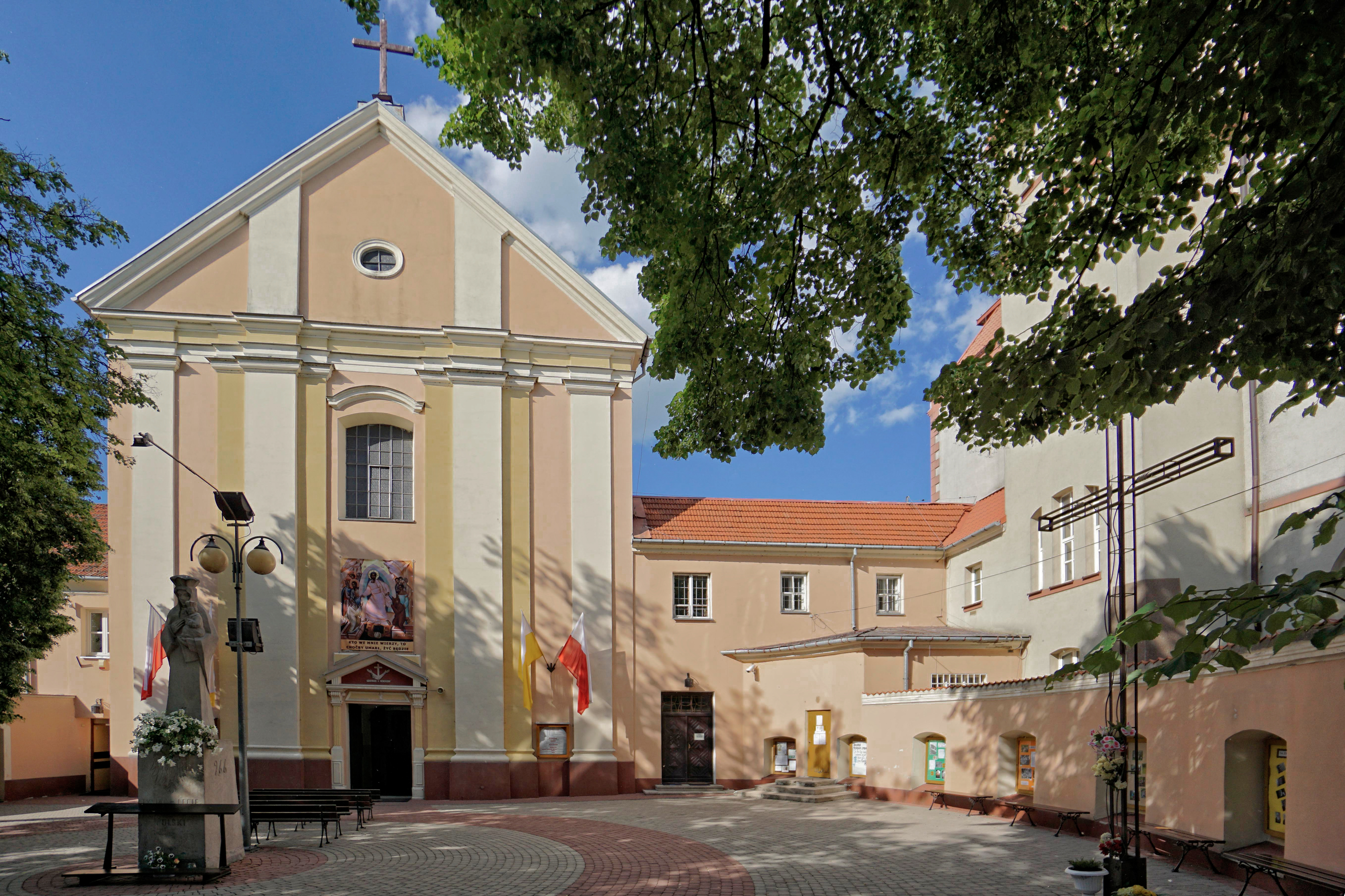 Church and monastery of Franciscan in Łomża (Poland) 03.1980.